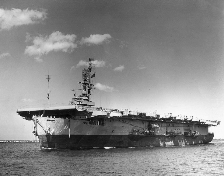 The U.S. Navy Casablanca-class aircraft carrier USS Solomons (CVE-67).